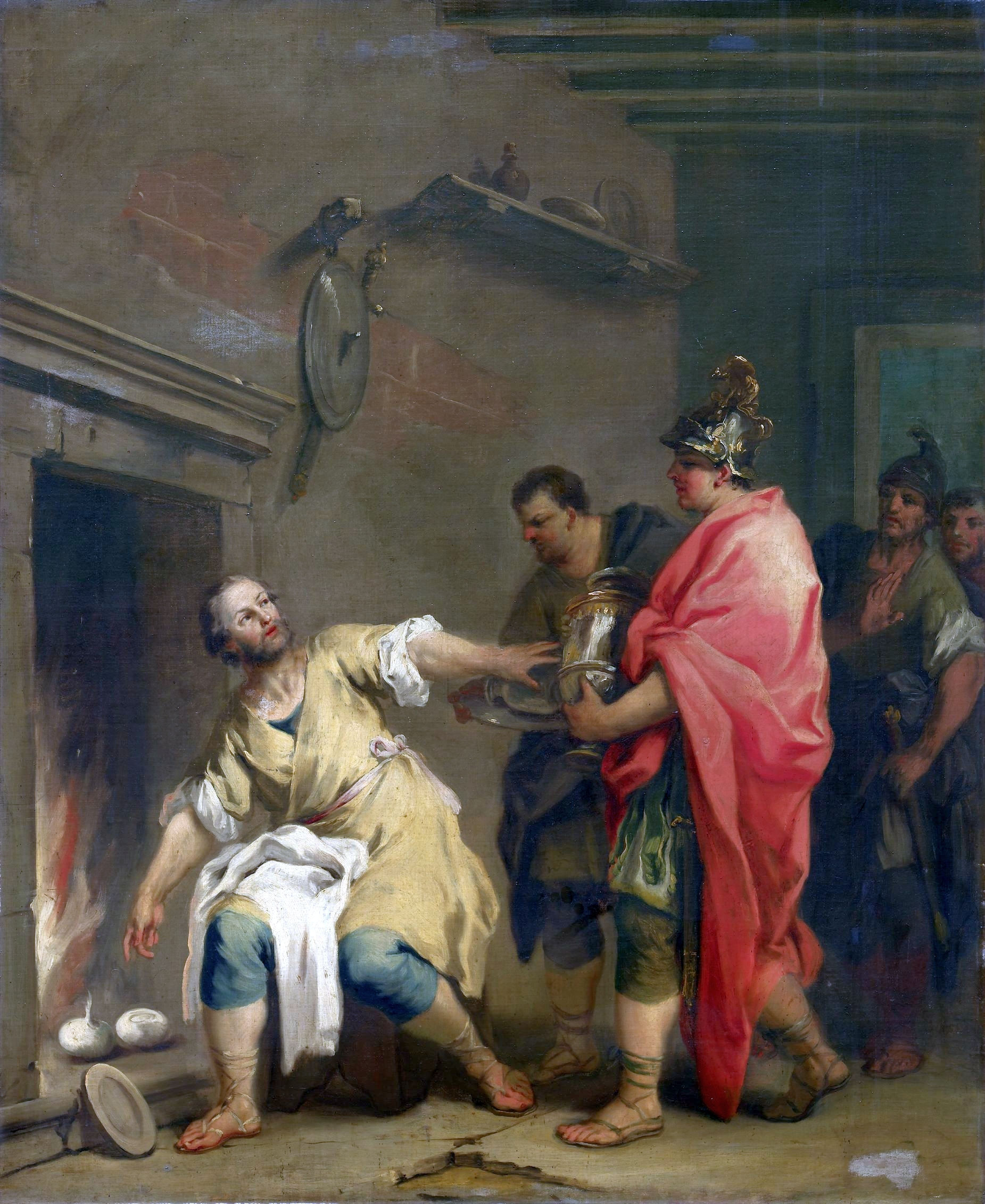 Curius Dentatus and the turnips - Jacopo Amigoni - MUSEUM BREDIUS (The Hague)